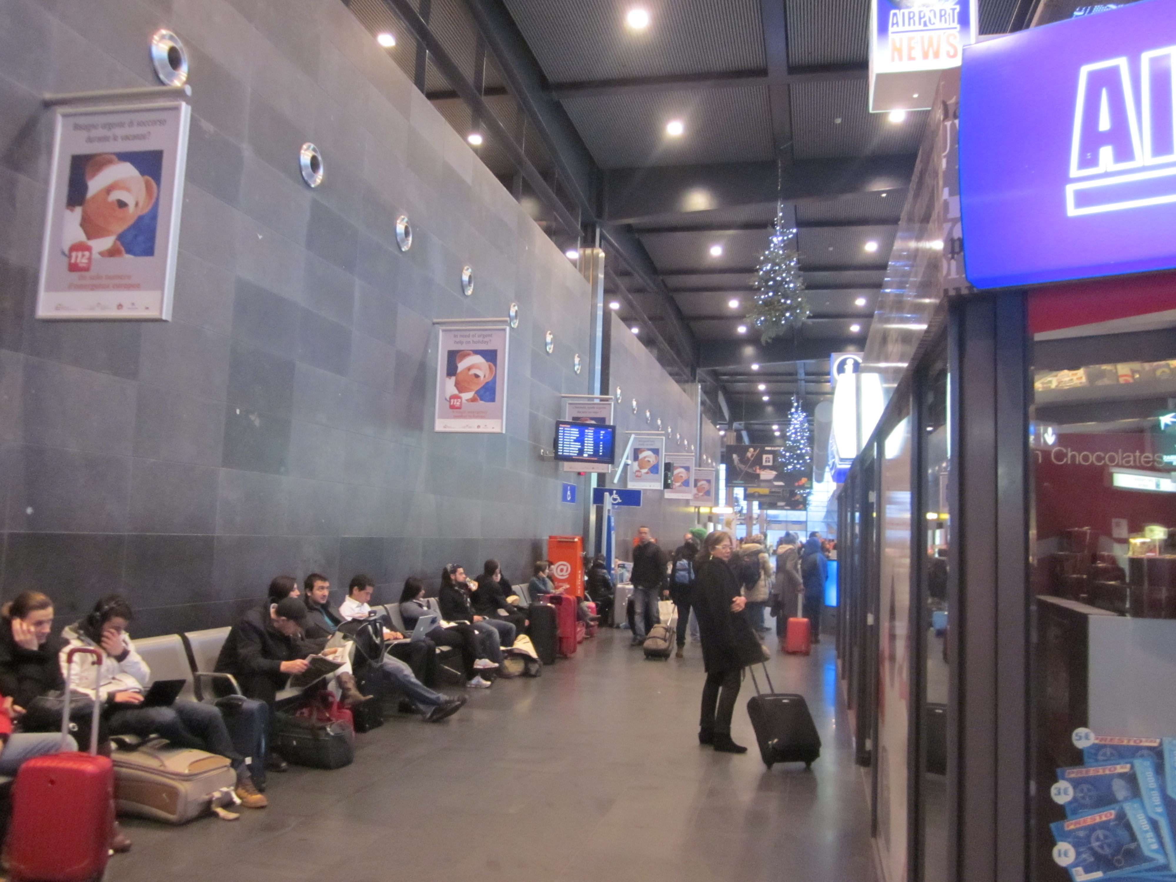 Brussels South Charleroi Airport